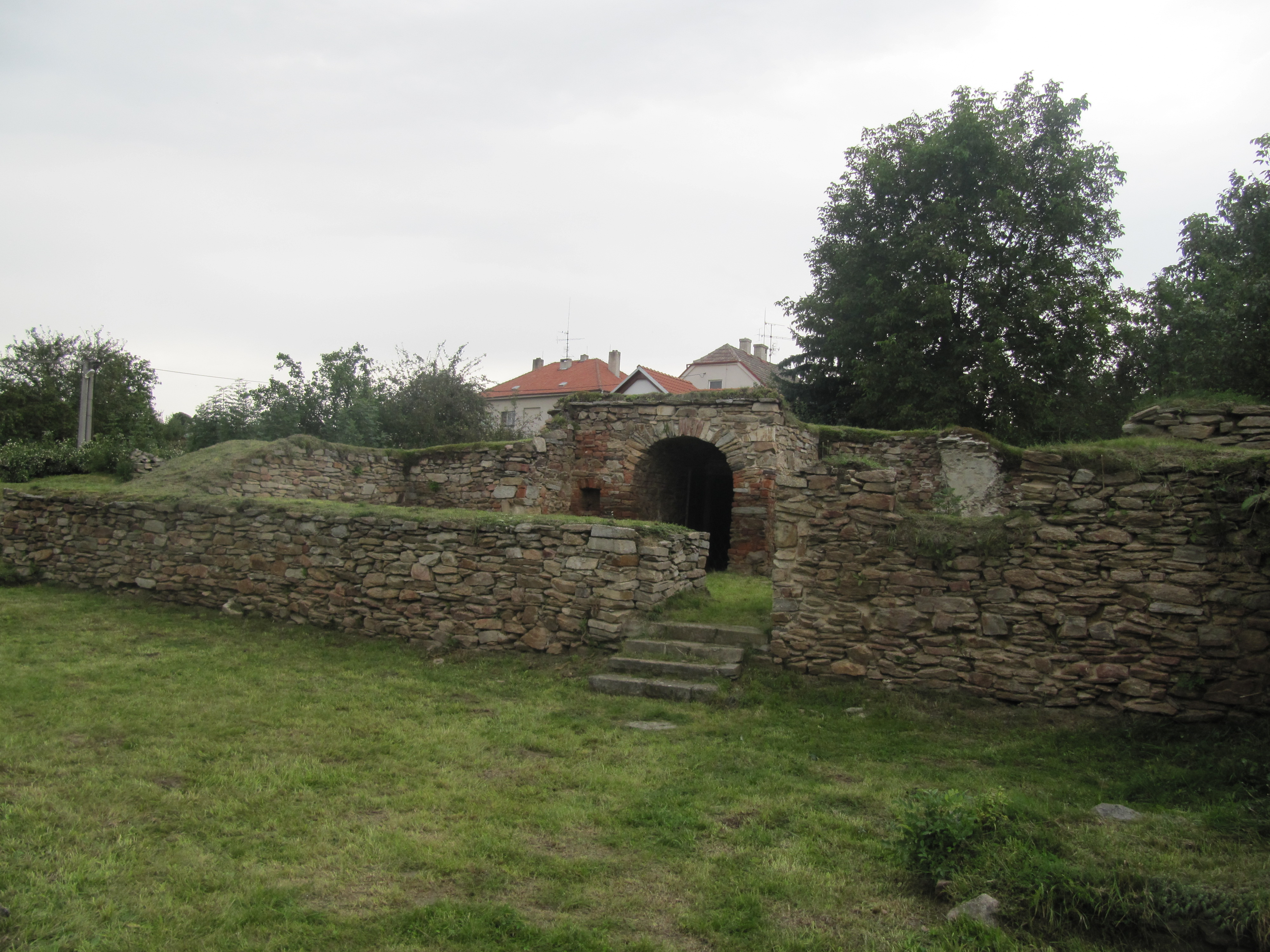 Kralice nad Oslavou in Třebíč District, Czech Republic. Ruin of mansion.